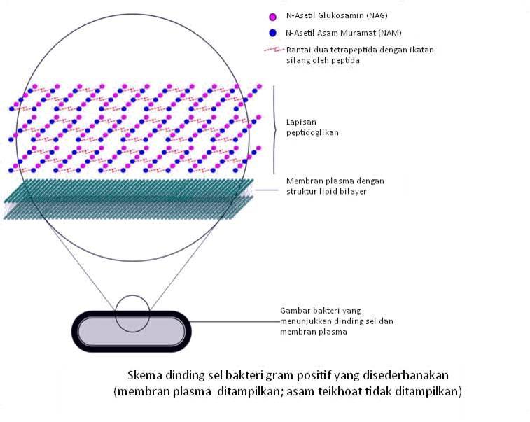 Schematic of gram-positive cell wall showing plasma membrane. Made in Inkscape.